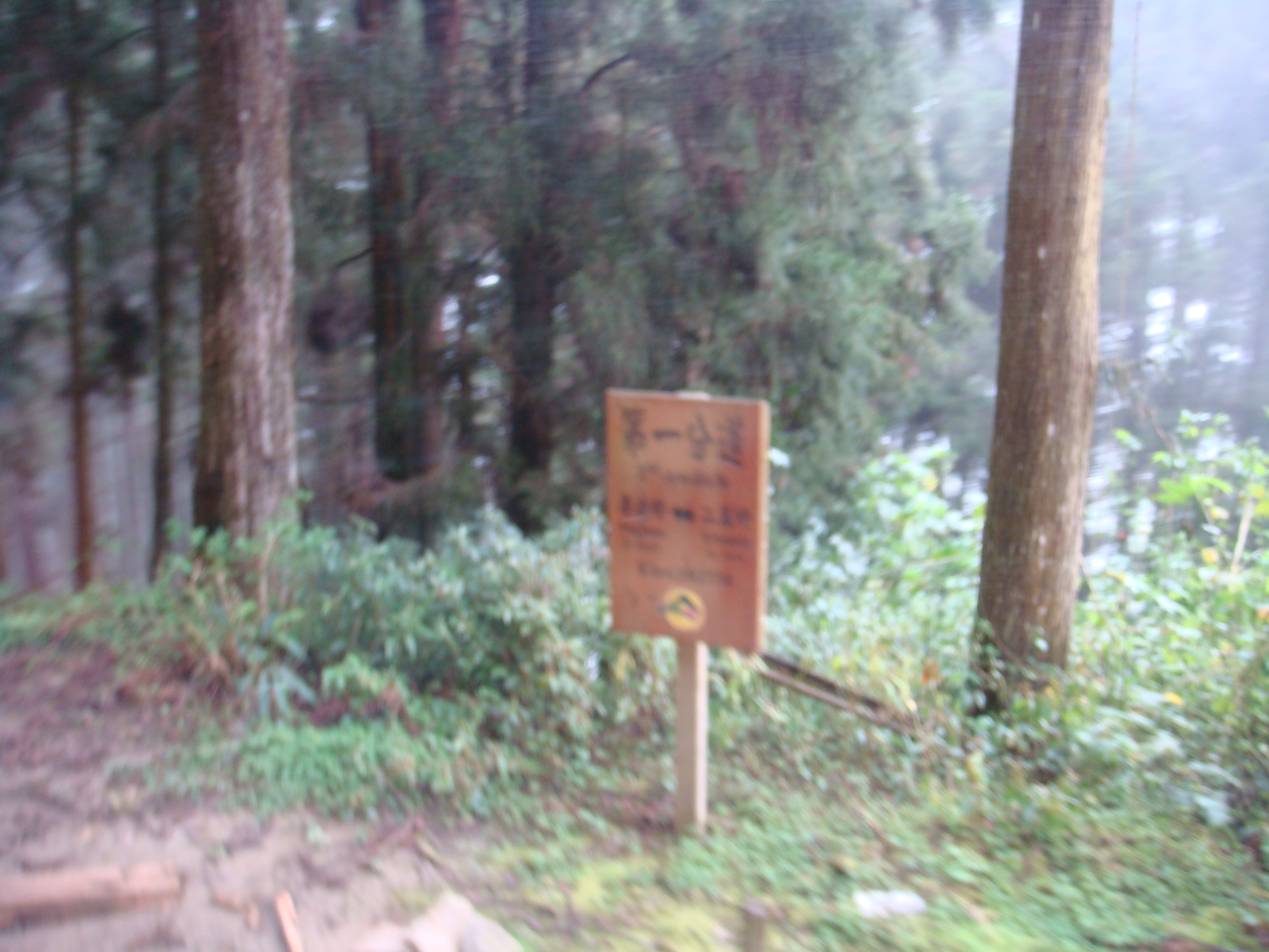 Alishan Forest Railway 1st-switch Station. 阿里山森林鐵路第一分道車站